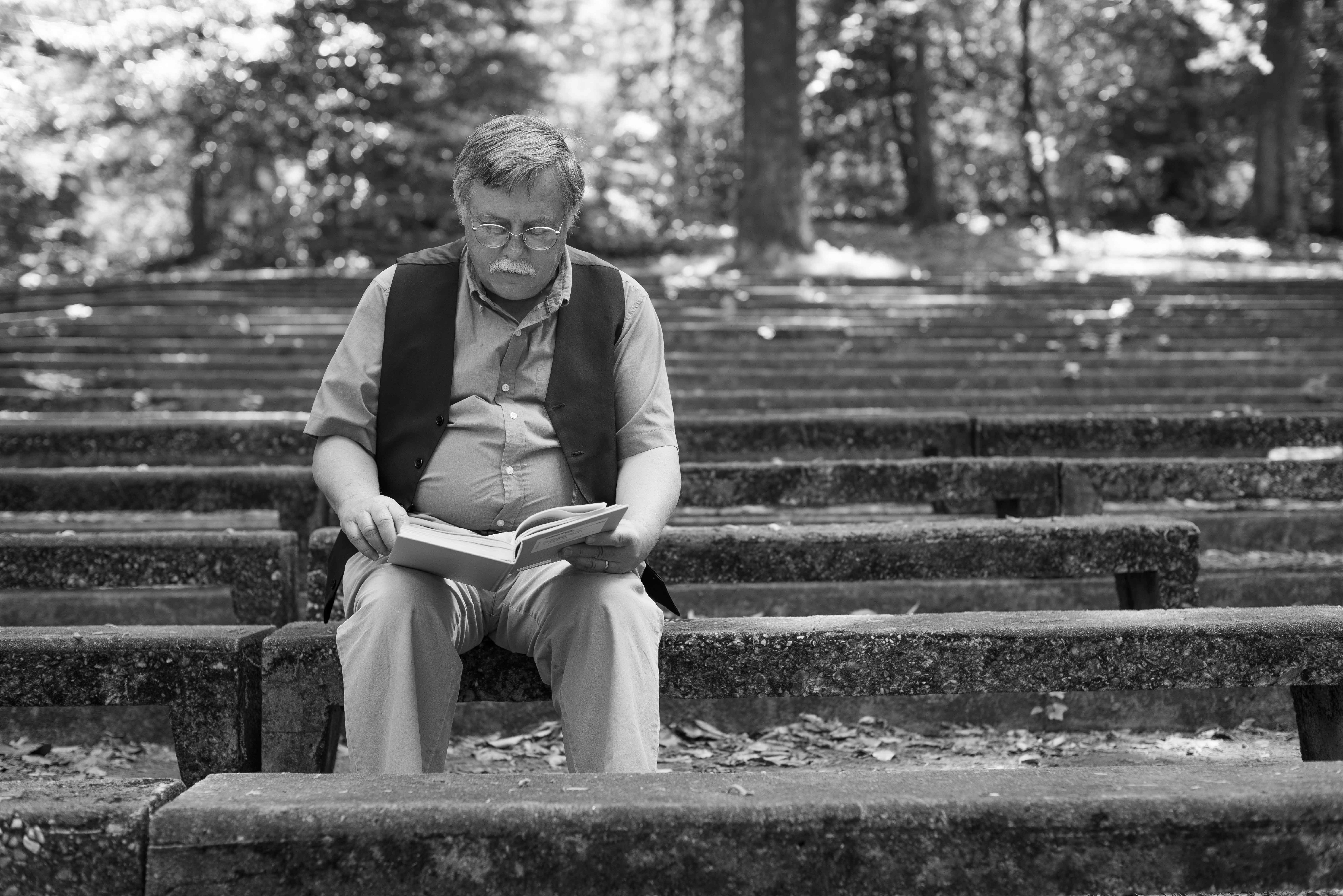 Daniel Preston, founder and editor of The Papers of James Monroe at the University of Mary Washington. This photo shows Mr. Preston on the grounds of UMW.